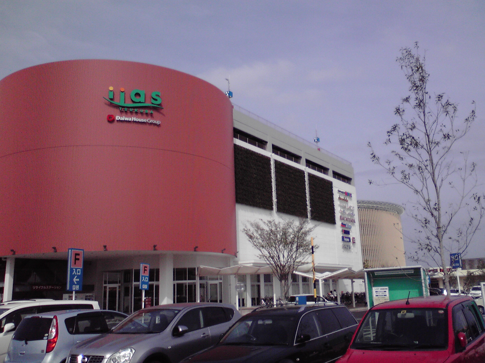 This is a shopping center in Tsukuba,Japan.